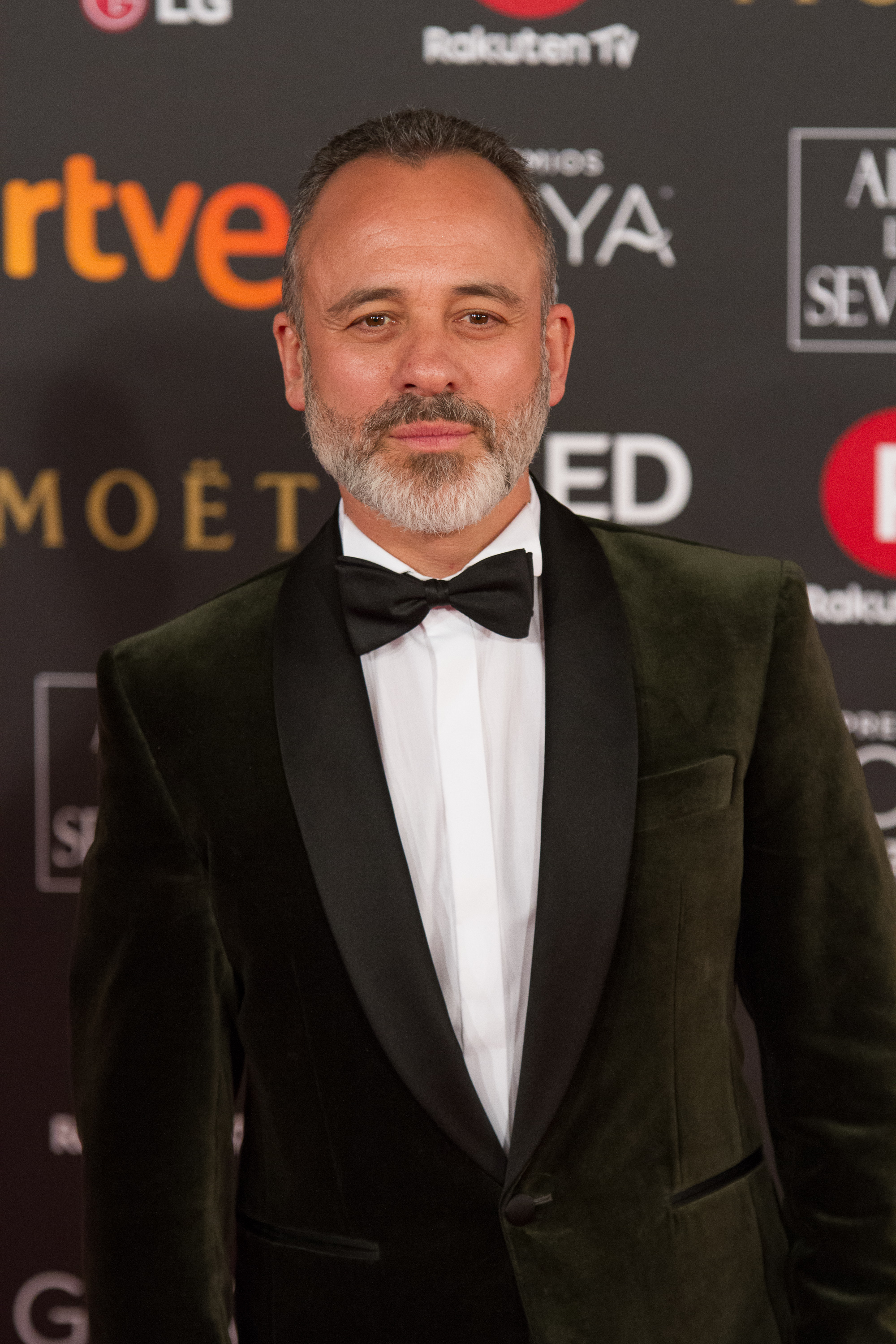 32nd Goya Awards, 2018.